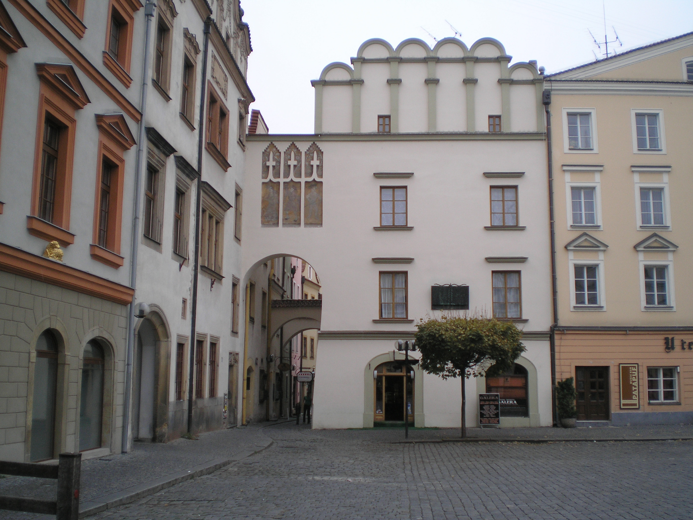 Pardubice entry to Bartolomějská str